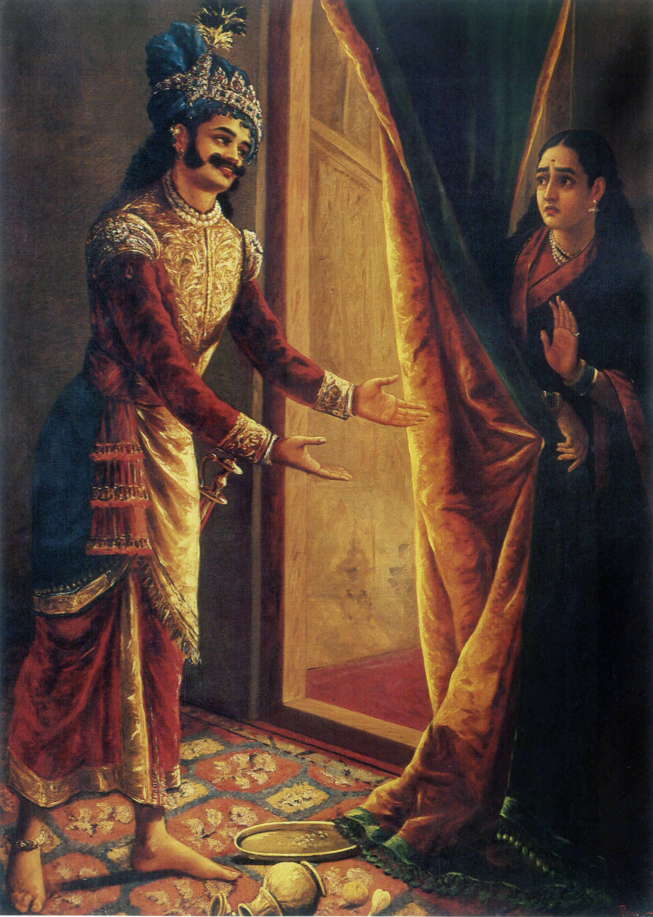 Draupadi as Sairandhri fends off Kichaka's advances